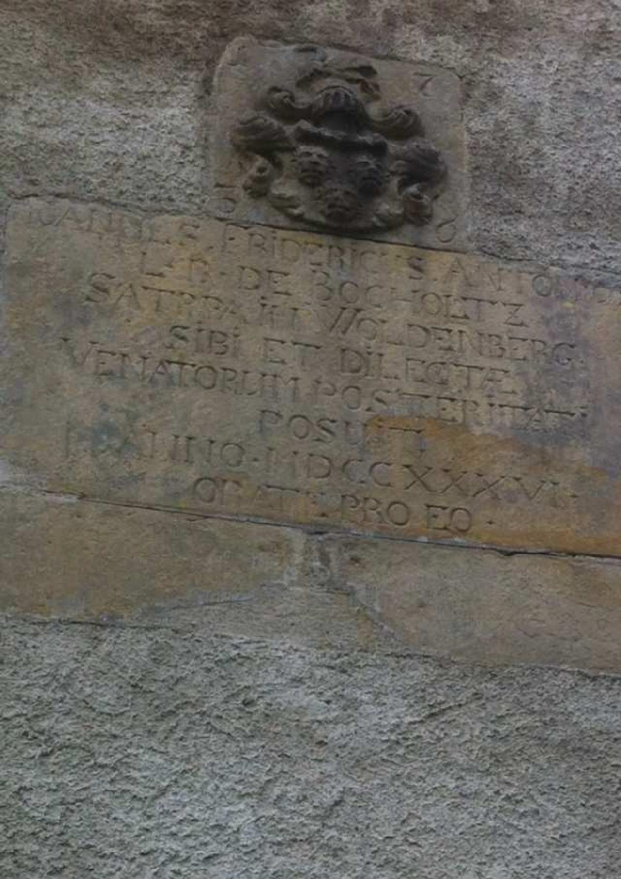 Latin inscription at the Jägerturm with crest of the noble family Bocholtz, Heere, Germany.